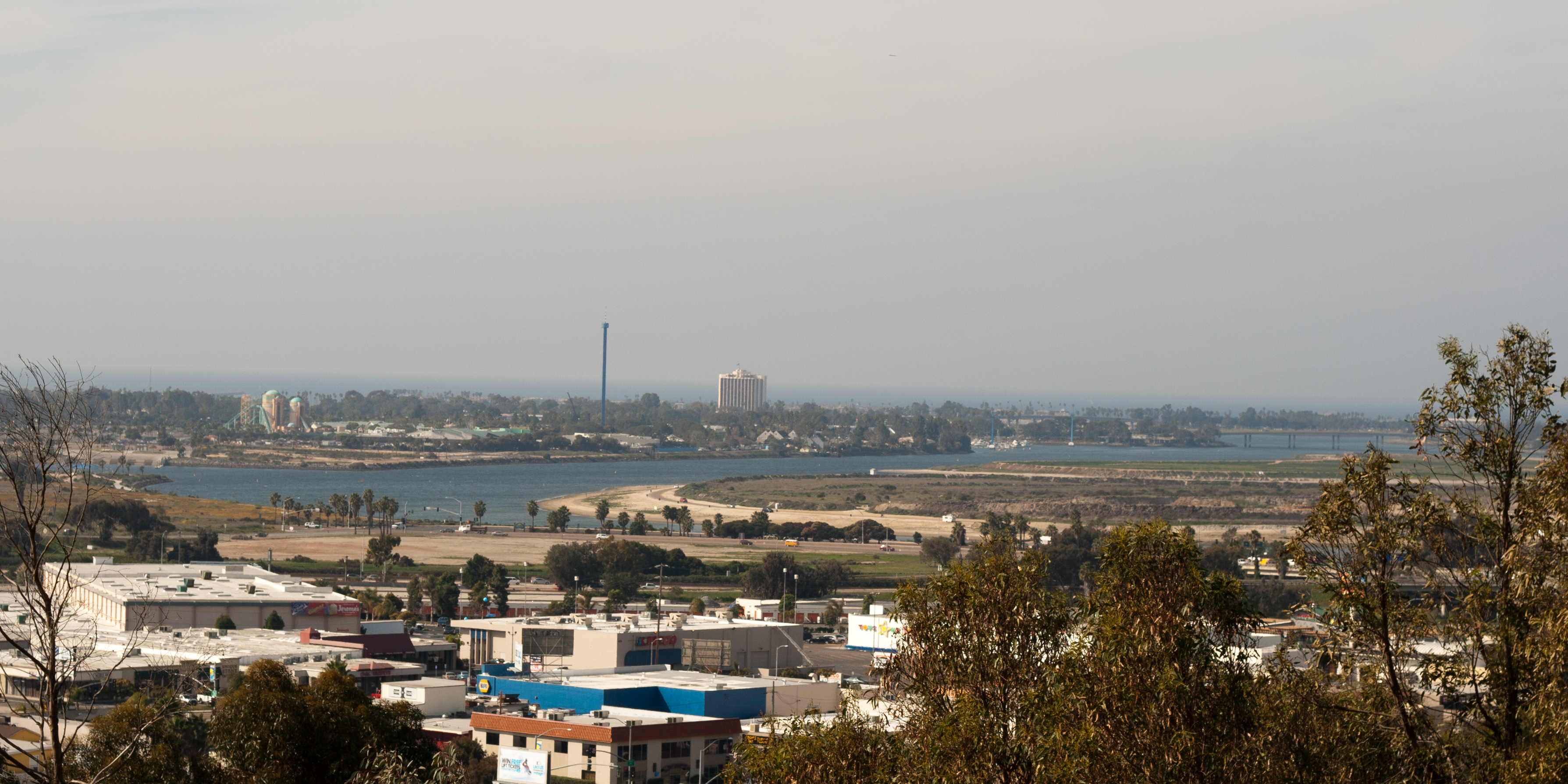 View of Mission Bay from the University of San Diego, San Diego, CA, USA.